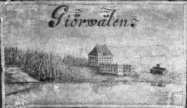 The castle of Görväln in Järfälla by Carl Gripenhielm on a map over Mälaren in 1689. The original in colour is from 1688, and the printed version is from 1689.